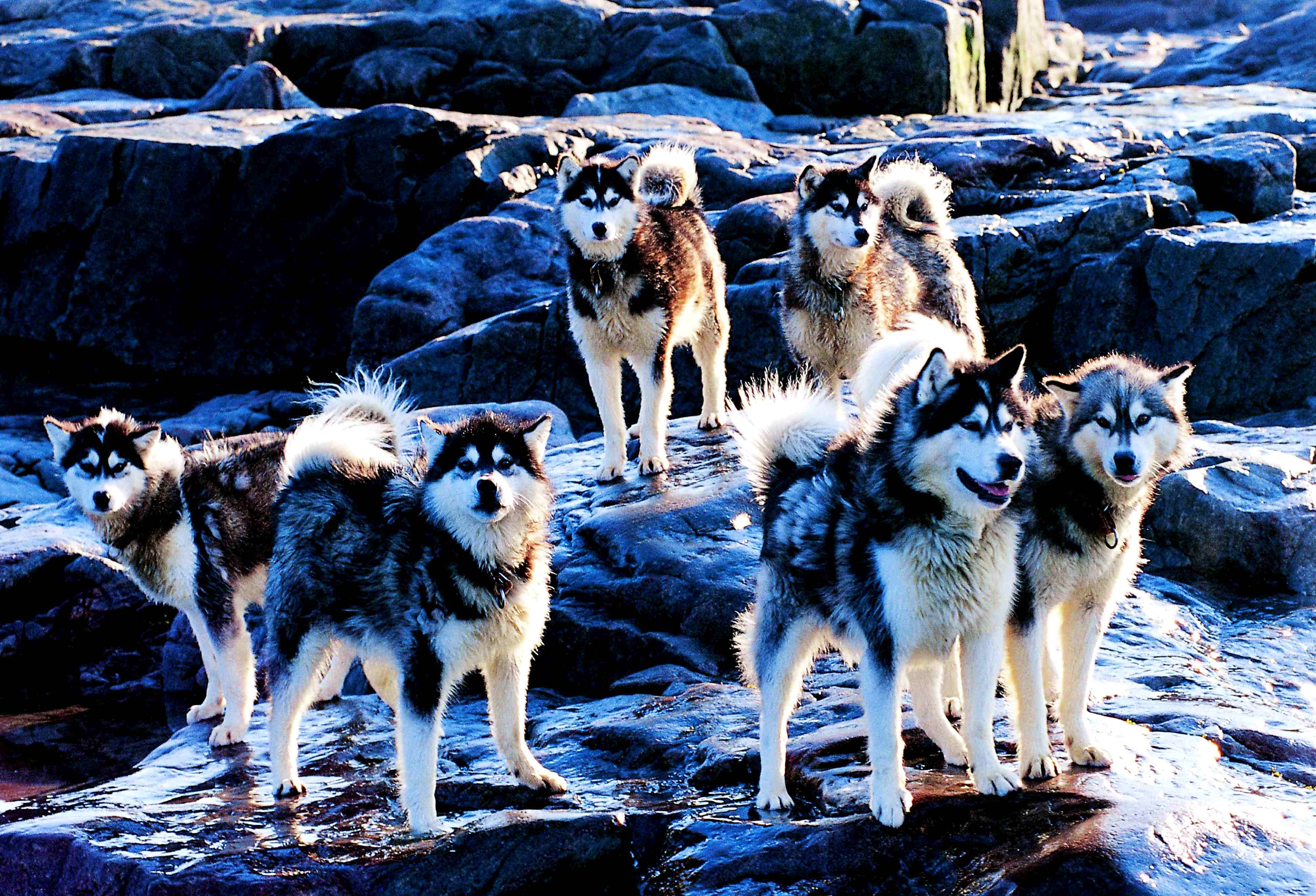 "Canadian Inuit Dog" (Canis familiaris borealis), official Animal of Nunavut